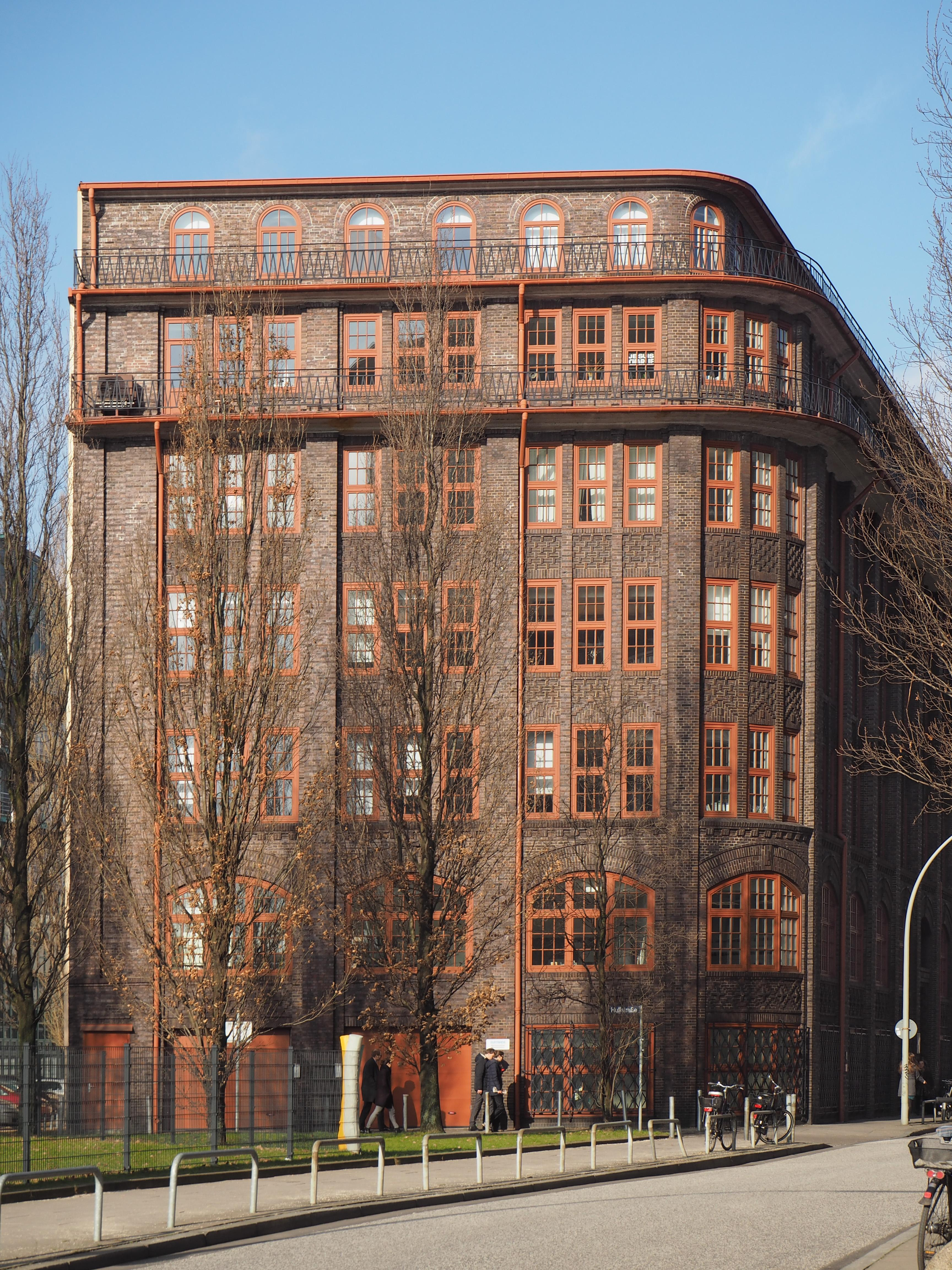 Hamburg, Office building "Stubbenhuk"